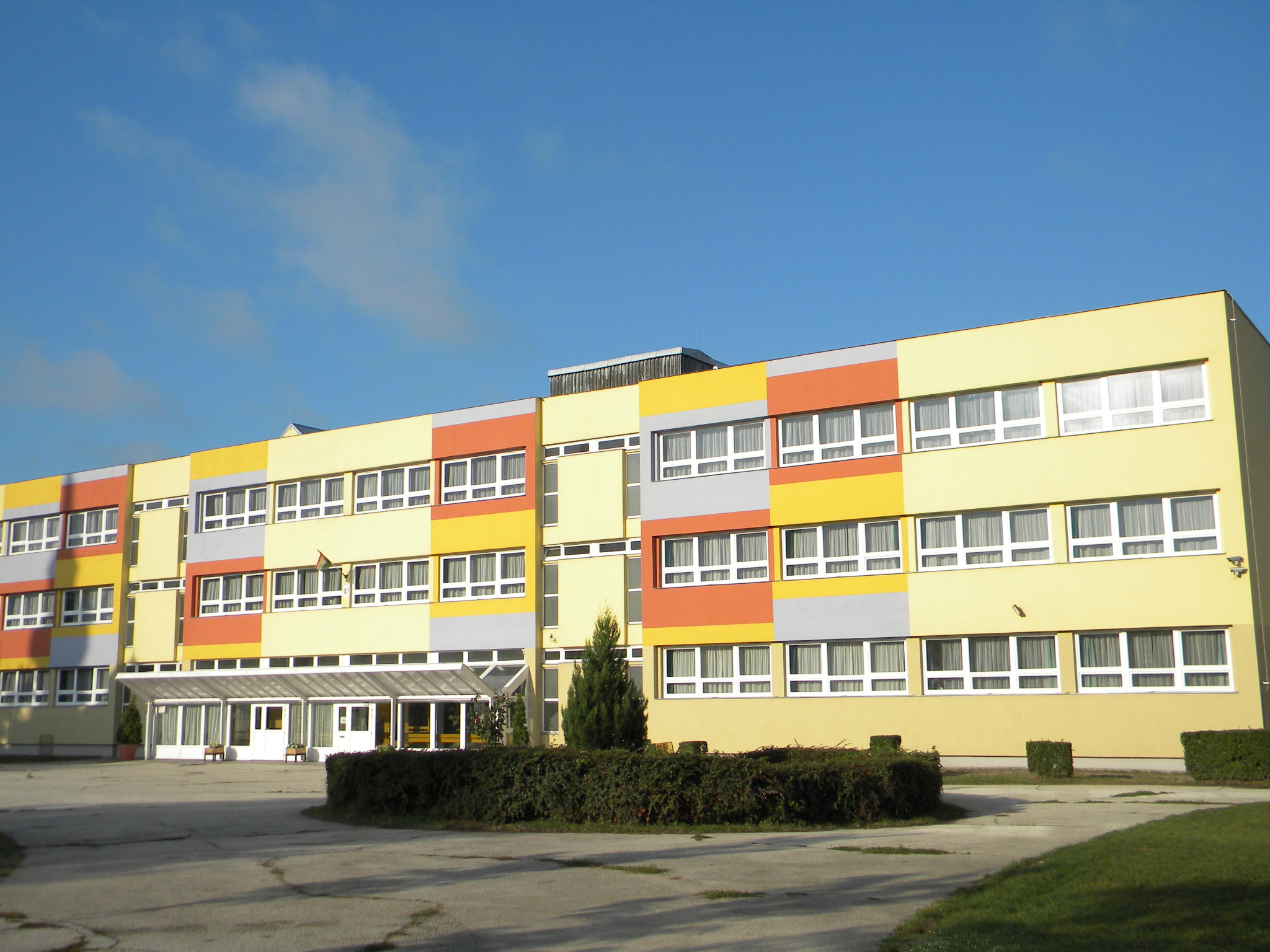 Location: Hungary, Tata